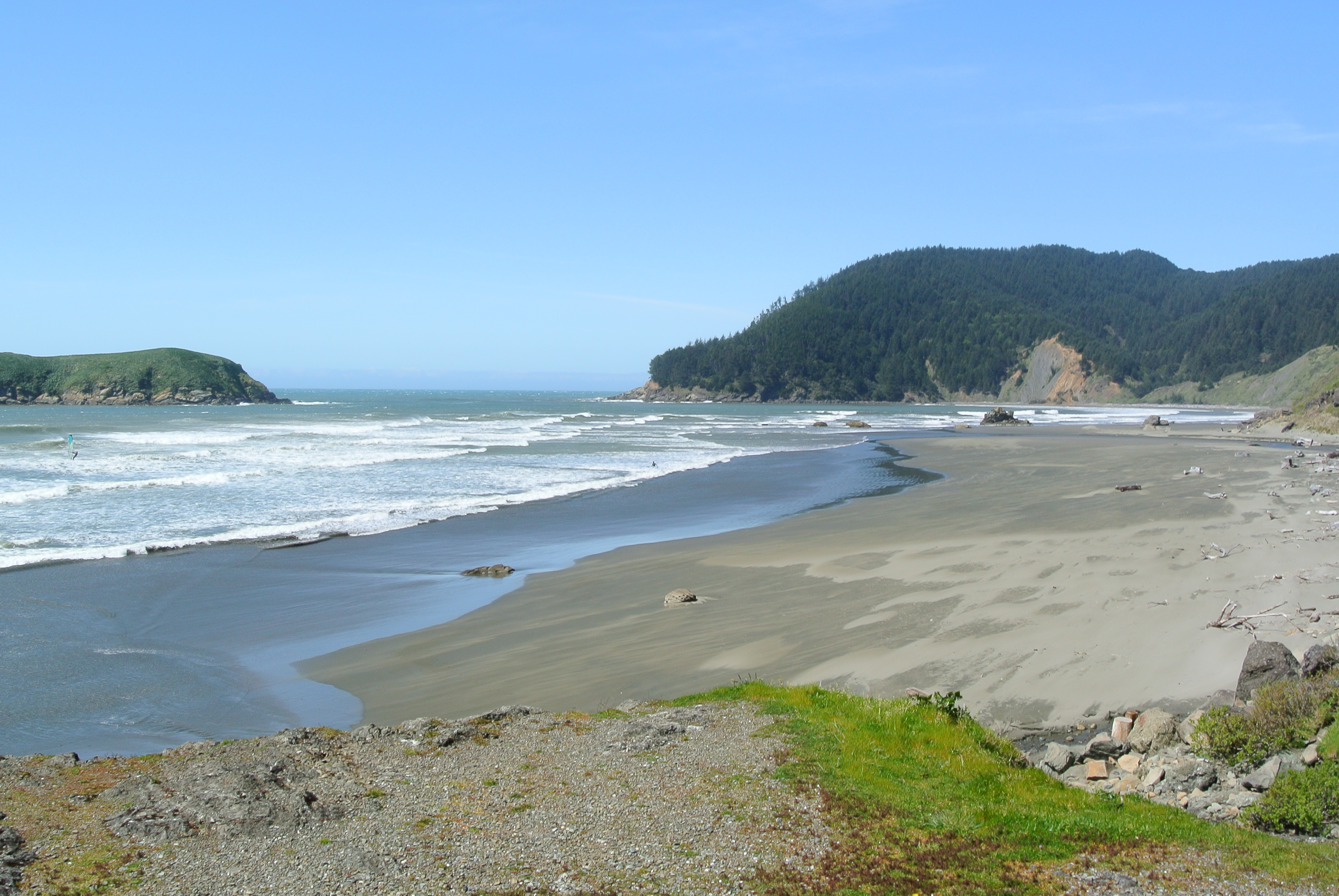 Northern side of Pistol River State Scenic Viewpoint, seen towards north. Hunters Island on the left, Hunters Cove on the right.